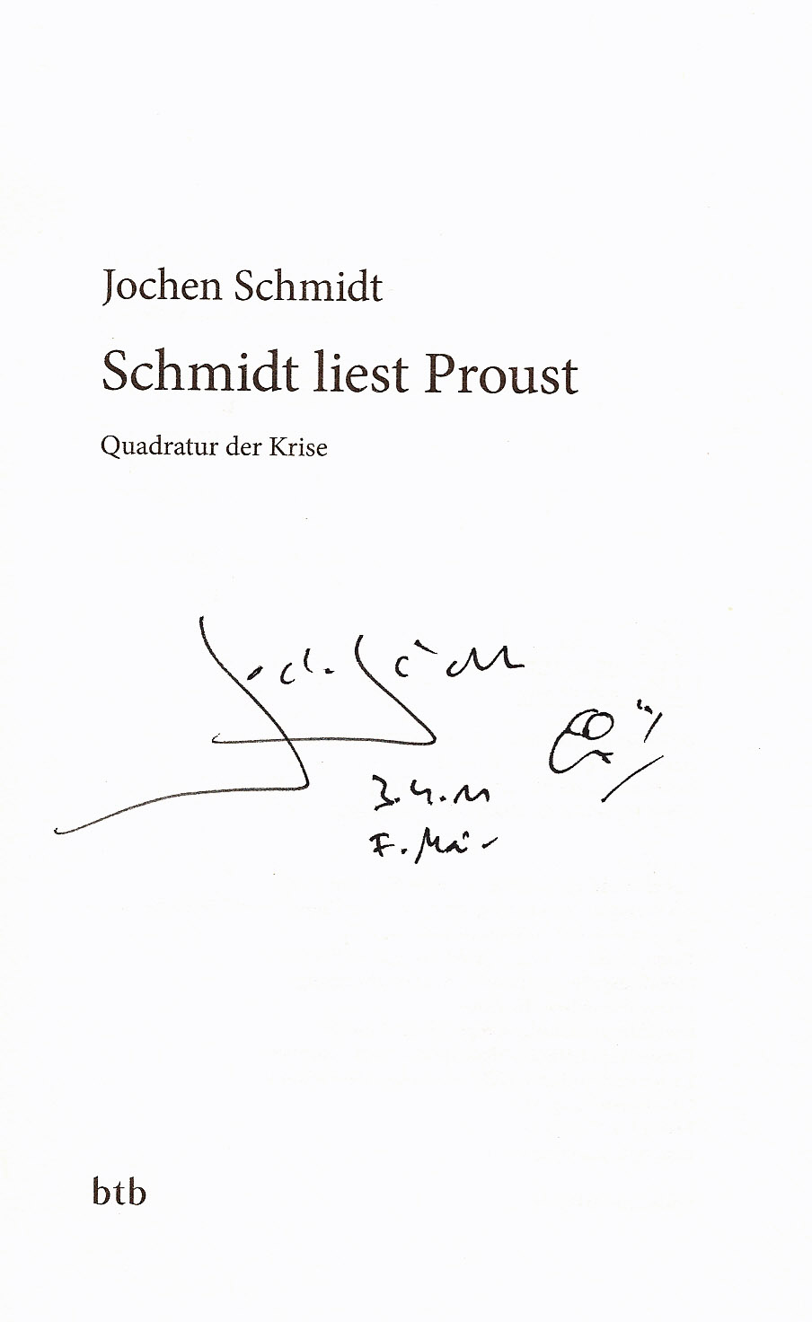 Autograph from Jochen Schmidt, German writer, 2011 in Frankfurt am Main, Germany.